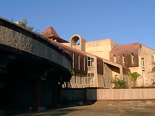 Photo of Goa University, Goa, India Photo by Frederick "FN" Noronha